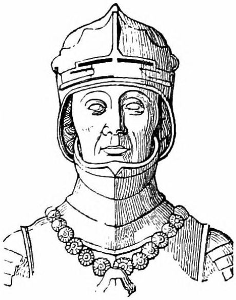 Drawing of the tomb effigy of Ralph Neville, 2nd Earl of Westmorland (d. 1484), after an original by Charles Stothard